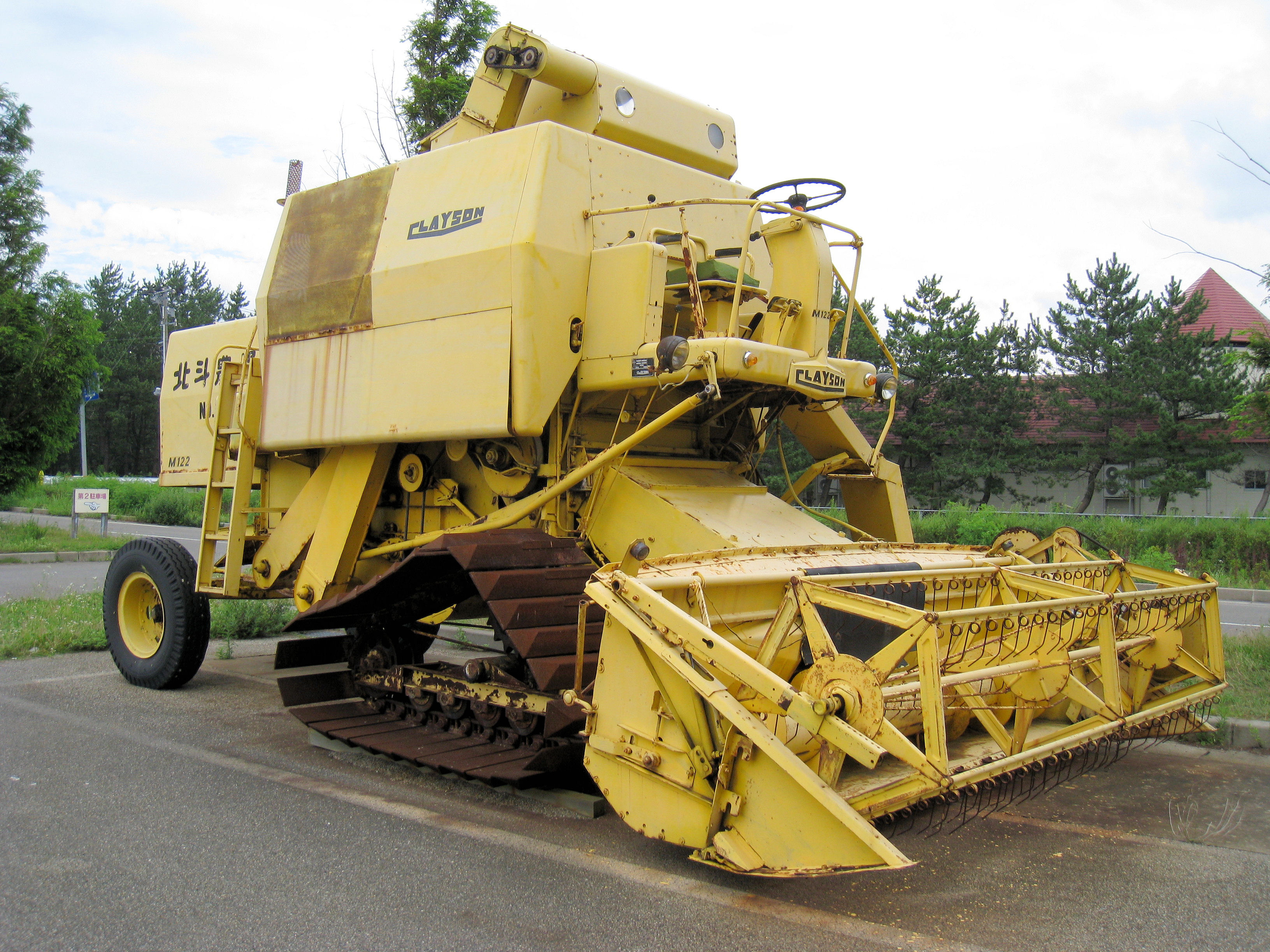 CLAYSON M122. Half-tracked combine harvester used in rice field in around 1968. Polder museum of Ogata-mura, Akita, Japan.